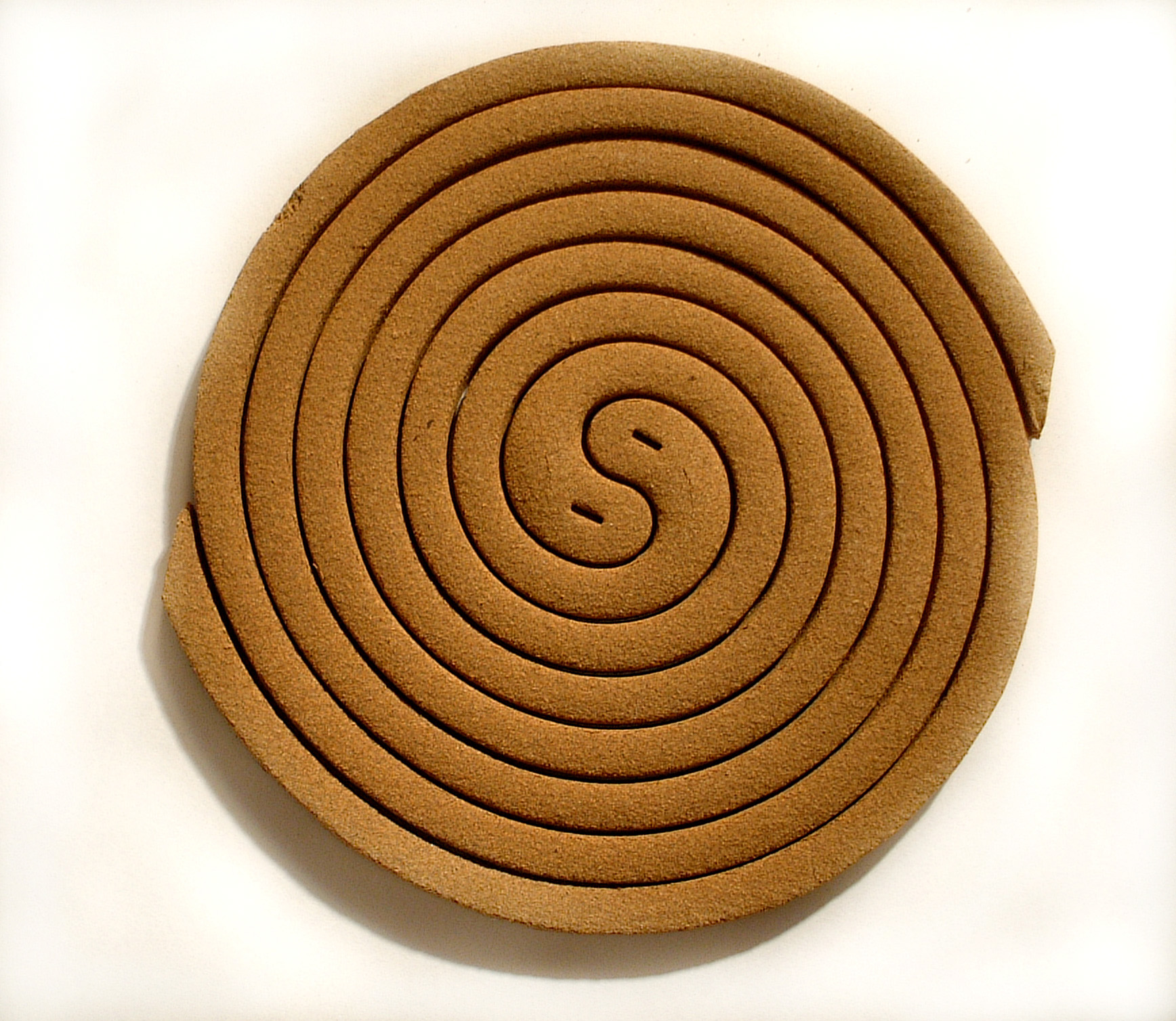 Katori Senkou. Photo taken in Japan.